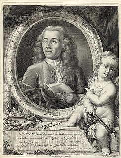 Abraham de Haen (1707-1748), Dutch painter and writer